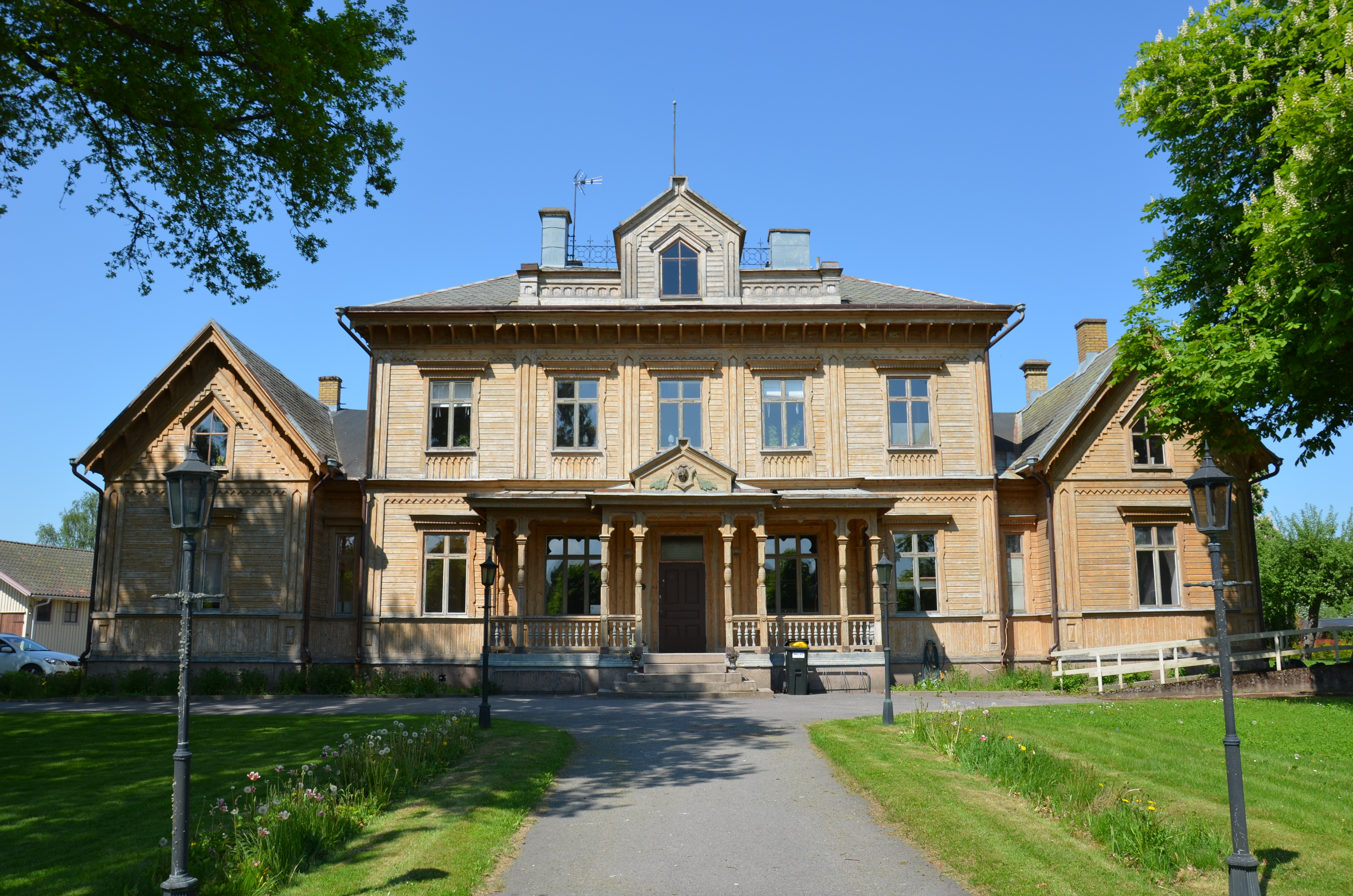 Old courthouse in Vara